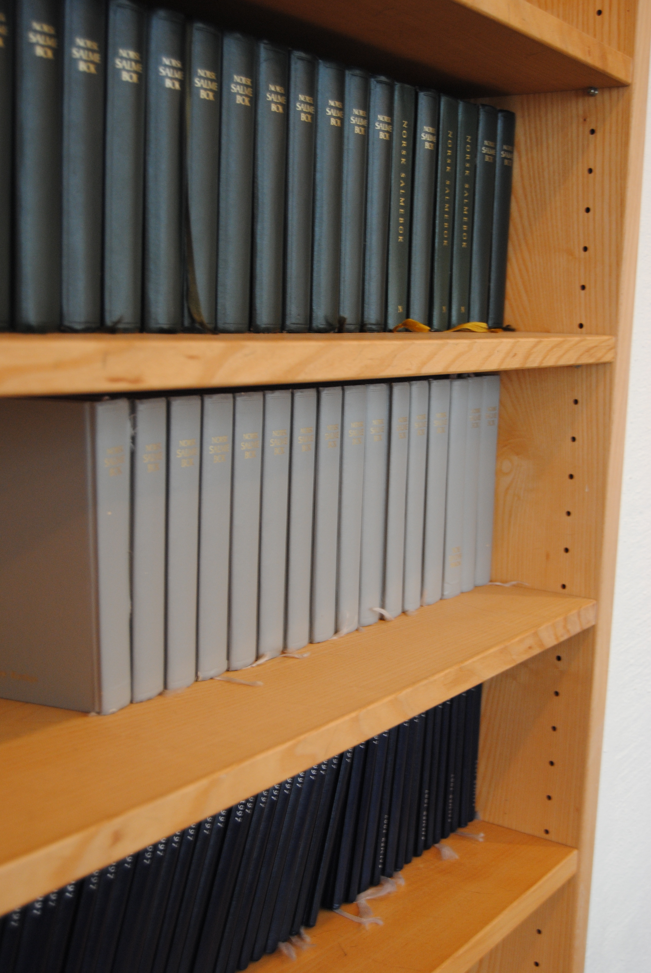 Hymnals in a Norwegian church.